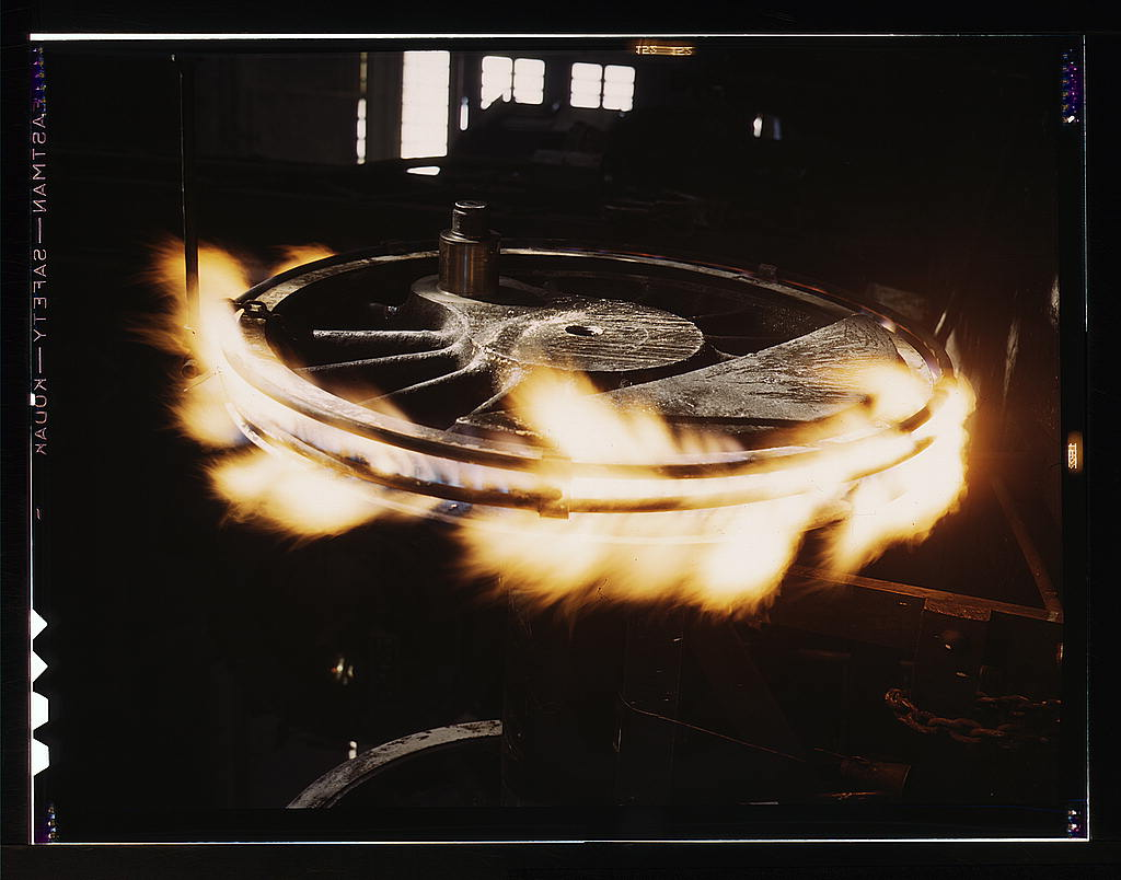 Delano, Jack,, photographer. Retiring a locomotive driver wheel in the Atchison, Topeka, and Santa Fe railway locomotive shops, Shopton, near Fort Madison, Iowa. The tire is heated by means of gas until it can be slipped over the wheel. Contraction on cooling will hold it firmly in place. Santa Fe R.R. 1943 March 1 transparency : color. Notes: Title from FSA or OWI agency caption. Transfer from U.S. Office of War Information, 1944. Subjects: Atchison, Topeka and Santa Fe Railroad World War, 1939-1945 Railroad construction & maintenance Tires United States--Iowa--Fort Madison Format: Transparencies--Color Repository: Library of Congress, Prints and Photographs Division, Washington, D.C. 20540 USA, Part Of: Farm Security Administration - Office of War Information Collection 12002-4 (DLC) 93845501 General information about the FSA/OWI Color Photographs is available at Persistent URL: Call Number: LC-USW36-647